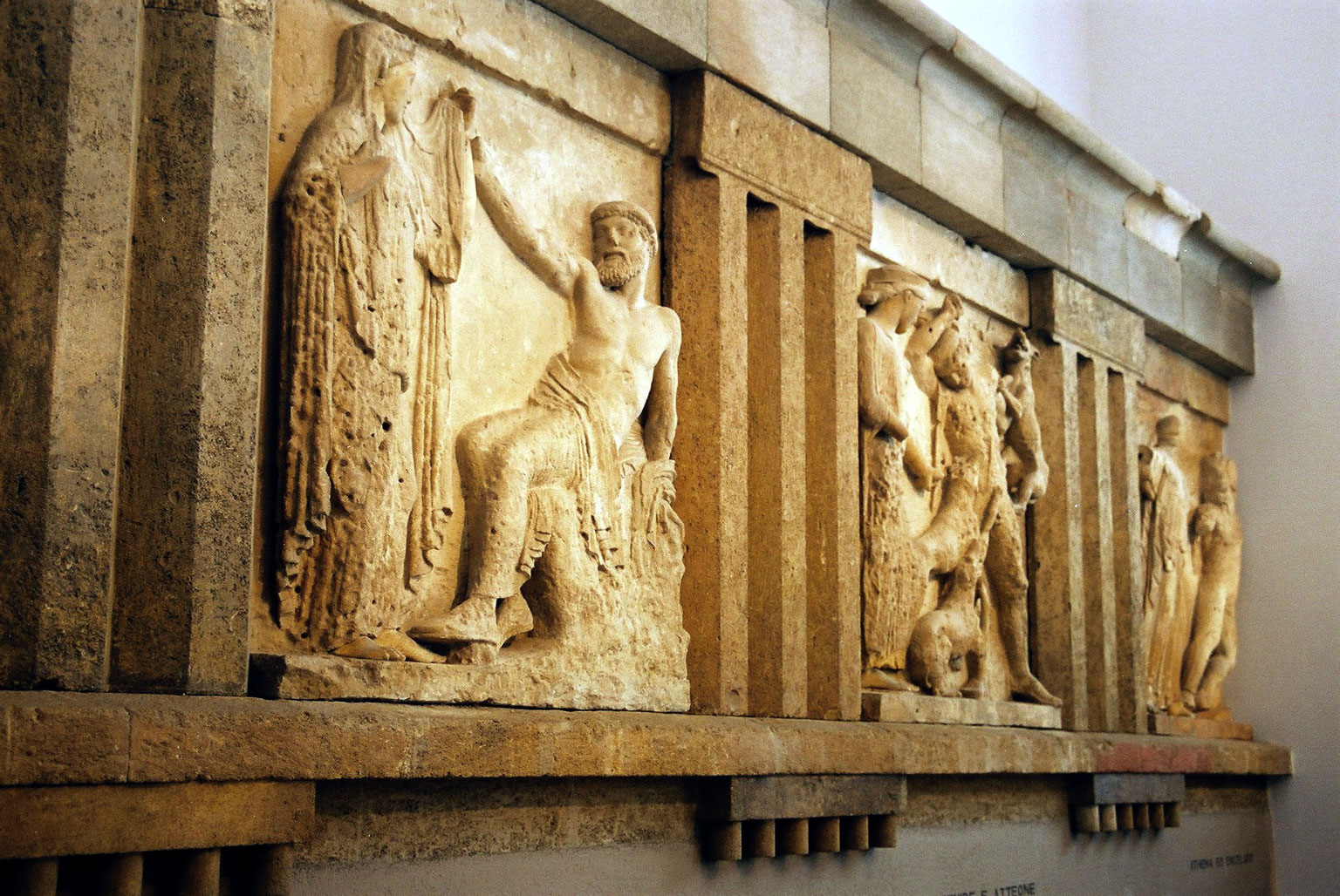 Museo Regionale Archeologico, Palermo. Metopes from temple E of Selinunte.